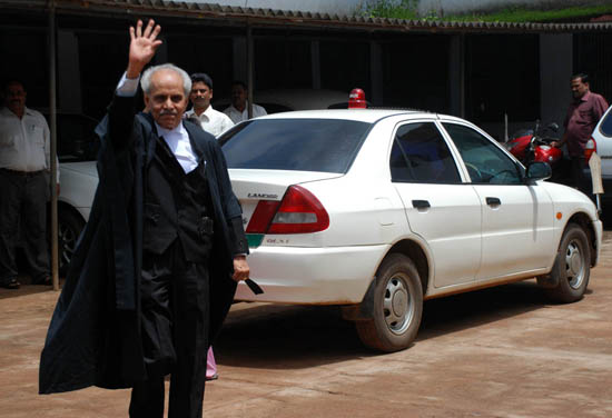 Justice B. K. Somasekhara, head of his namesake Somasekhara Commission that was appointed by the BJP Karnataka state govt to investigate the attacks on Christians in southern Karnataka on September 2008.